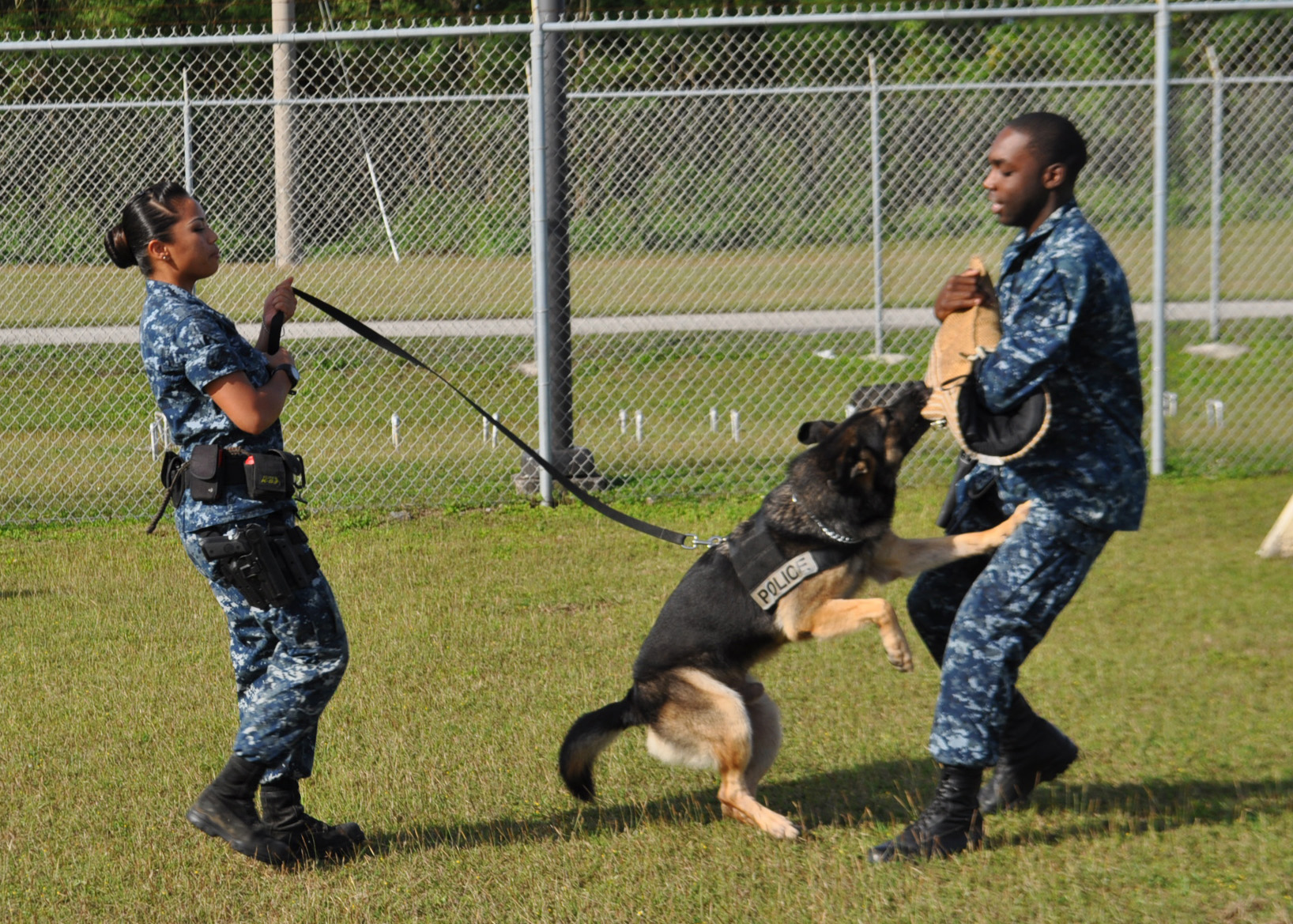 SANTA RITA, Guam (Jan. 31, 2012) Master-at-Arms 2nd Class Shiela McLean, assigned to the security department at U.S. Naval Base Guam, commands police dog, Mickey, to attack Master-at-Arms Seaman Stephon Sanders during a demonstration for students from the Harry S. Truman Head Start Center on U.S. Naval Base Guam. The purpose of the visit was to give students the opportunity witness how the police dogs are implemented in base security. (U.S. Navy photo by Mass Communication Specialist 3rd Class Corey Hensley/Released)